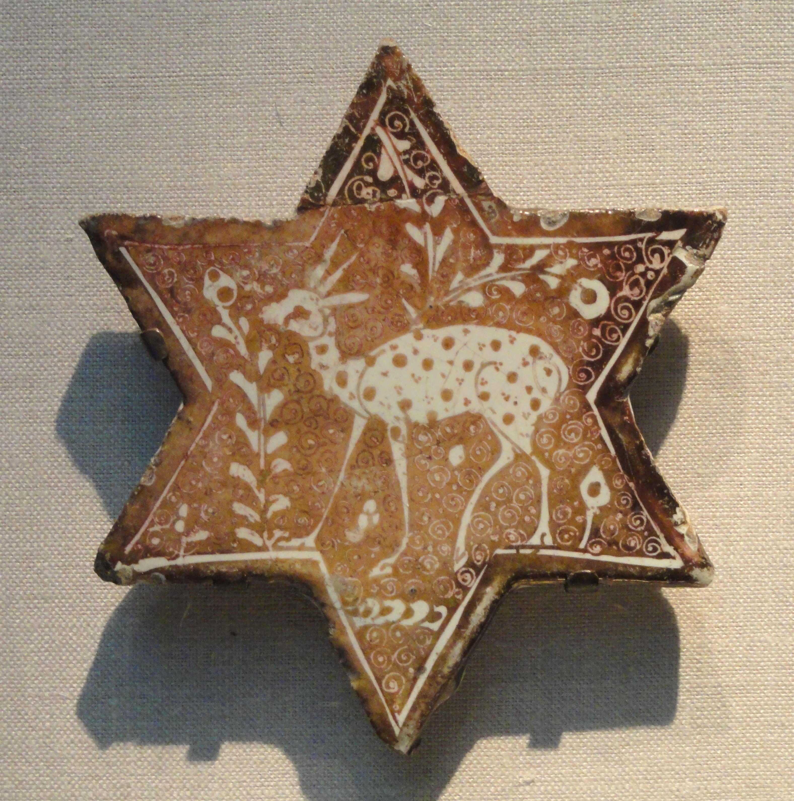 Exhibit in the Freer Gallery of Art, Washington, DC, USA. This artwork is old enough so that it is in the public domain.